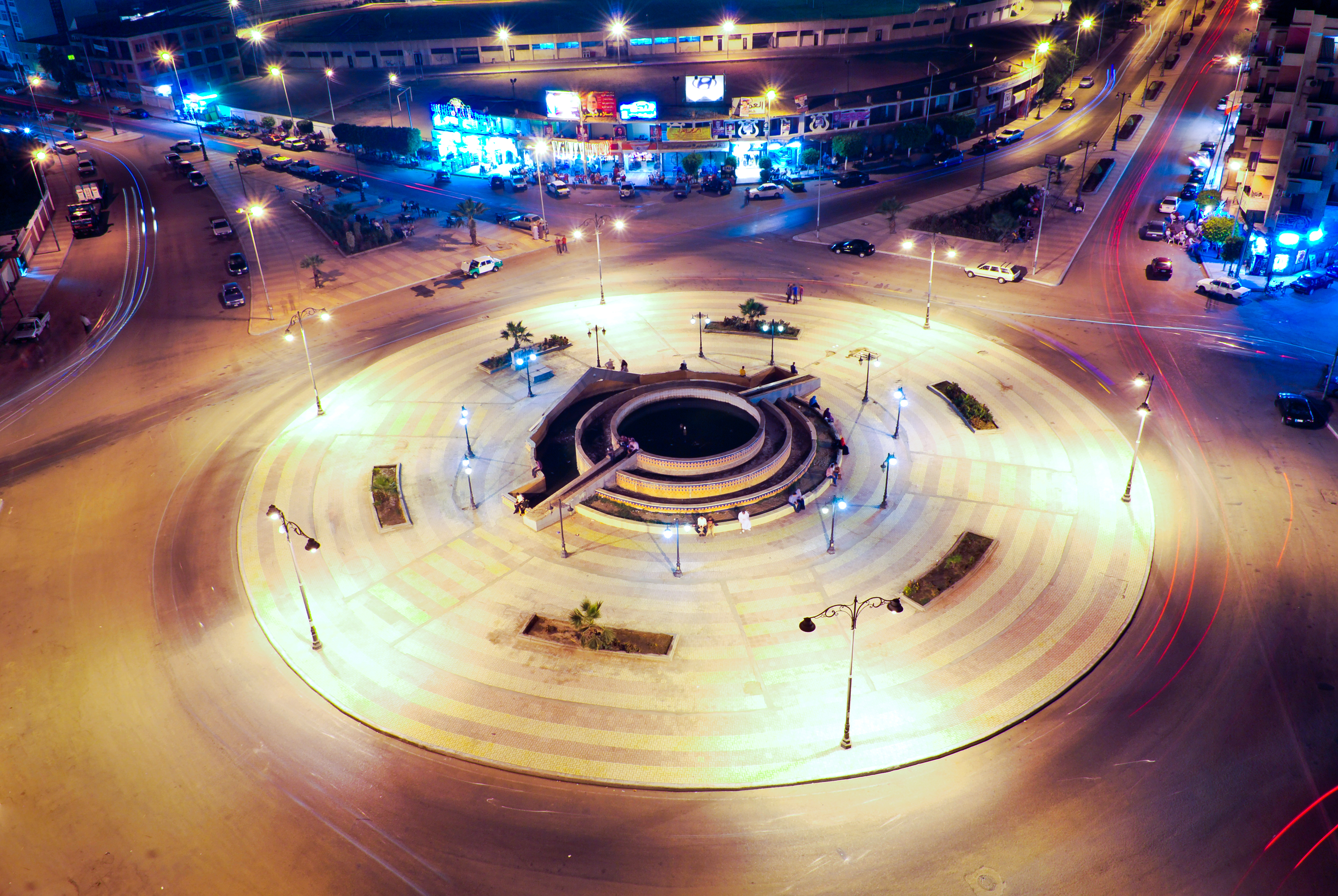 Damanhur is a city in Lower Egypt and the capital of the Beheira Governorate. It is located 160 km (99 mi) northwest of Cairo, and 70 km (43 mi) E.S.E. of Alexandria, in the middle of the western Nile Delta.